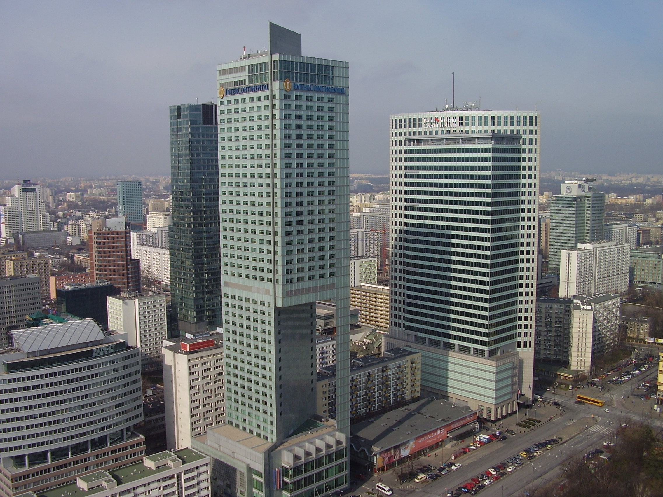 Warsaw during Easter 2008